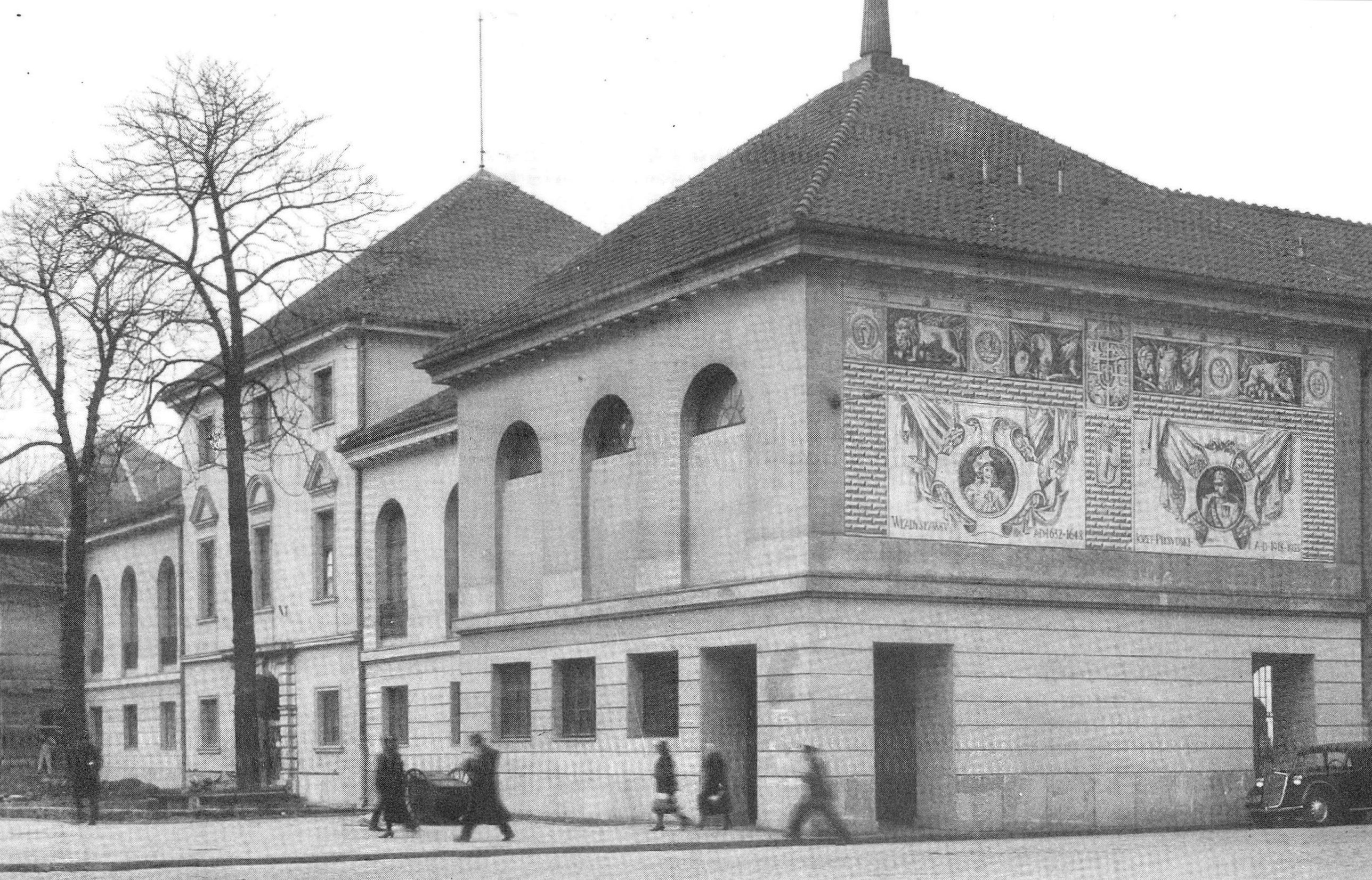 Arsenal in Warsaw viewed fromn the intersection of Długa and Nalewki Streets.